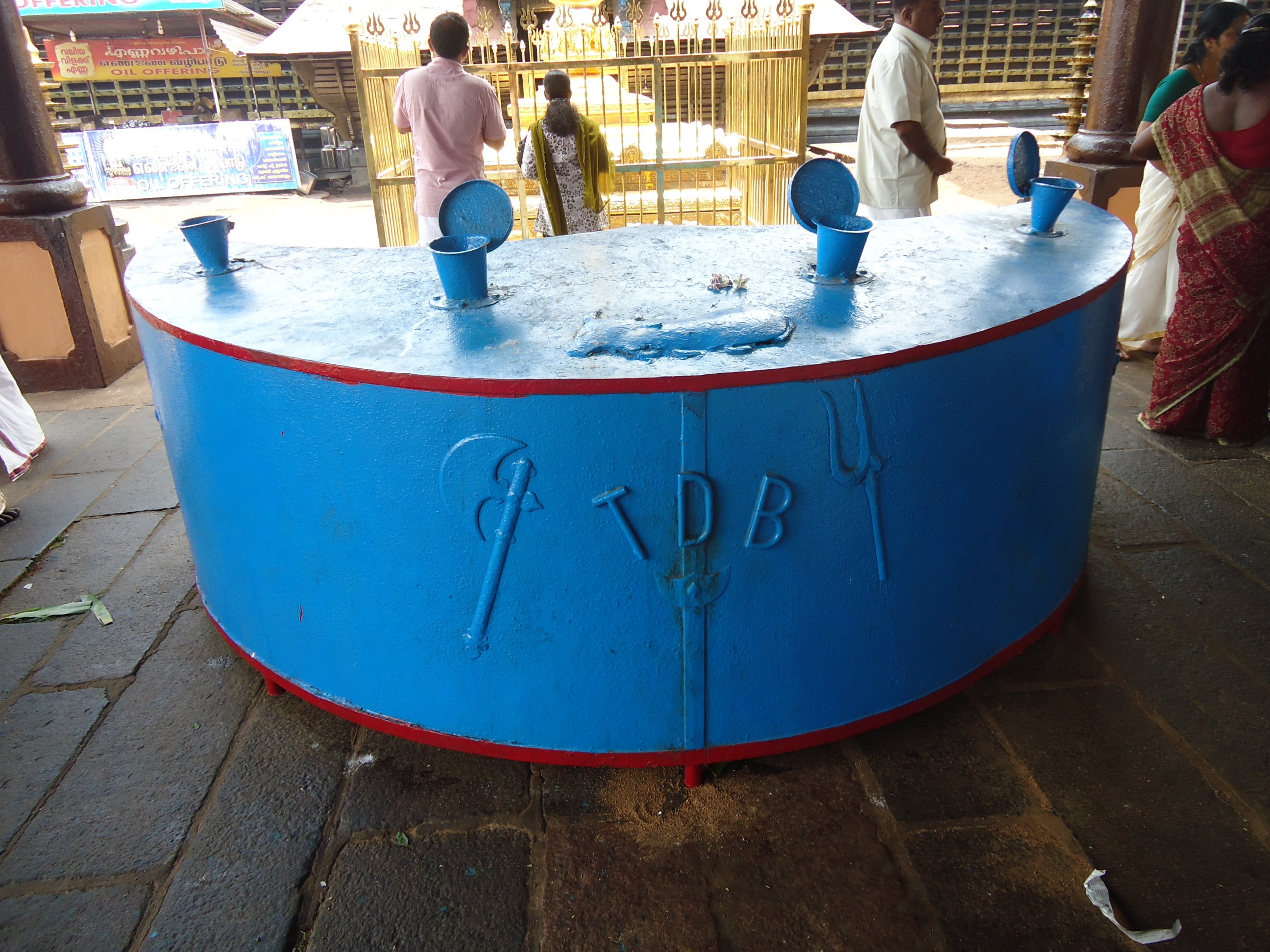 Ettumanoor Temple Bhandaram of TDB